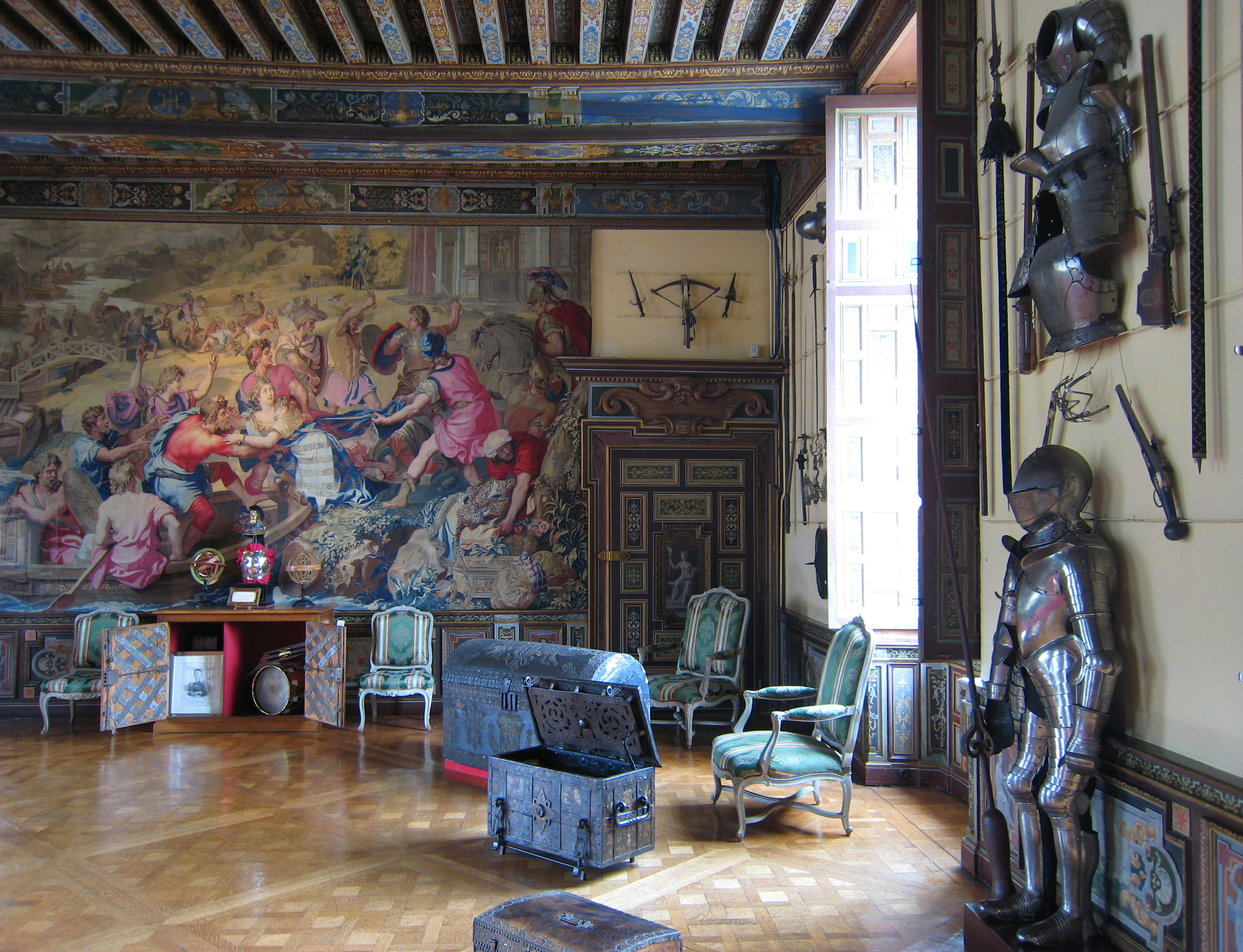 Weapon hall, Castle of Cheverny, Loir-et-Cher, France